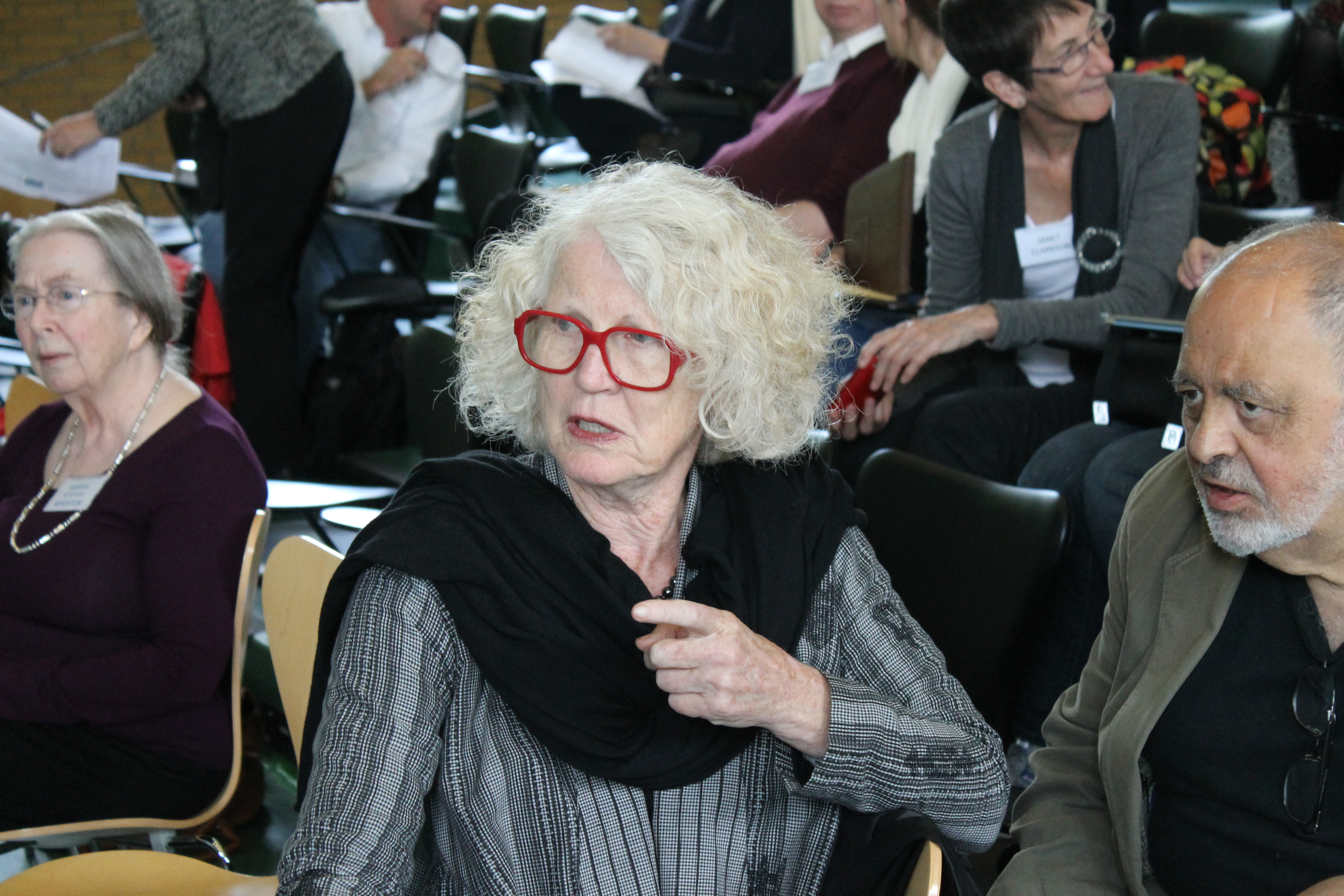 Caroline Conran and Sami Zubaida at the Oxford Symposium on Food and Cookery, 2012.